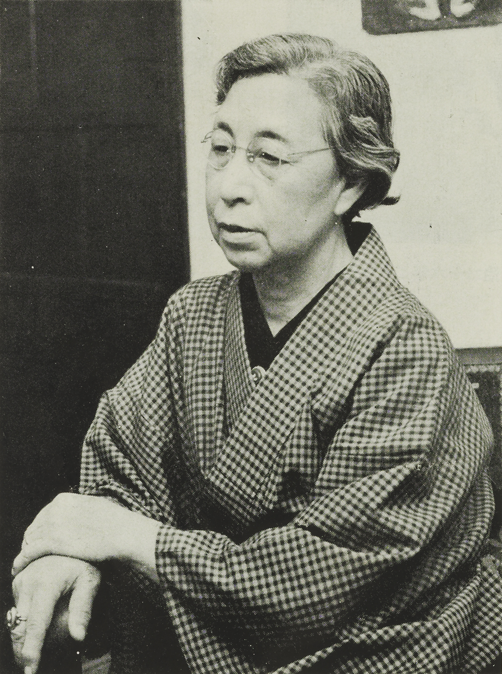 Portrait of Hiratsuka Raicho (平塚らいてう, 1886 – 1971)